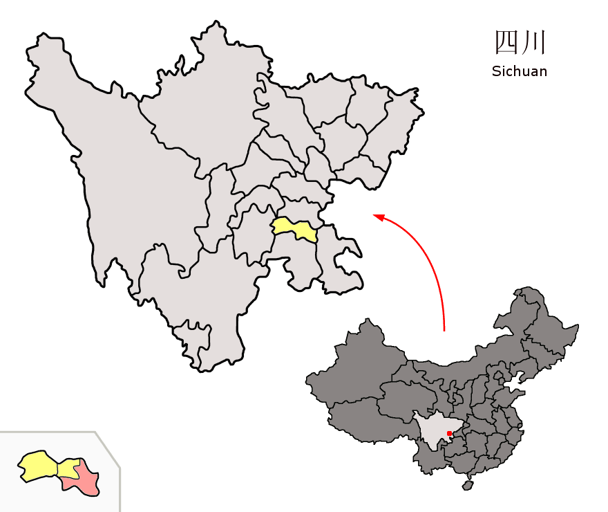 Location of Fushun County (pink) and Zigong Prefecture (yellow) within Sichuan province of China Map drawn in november 2007 using various sources, mainly : Sichuan province administrative regions GIS data: 1:1M, County level, 1990 Sichuan Counties map from